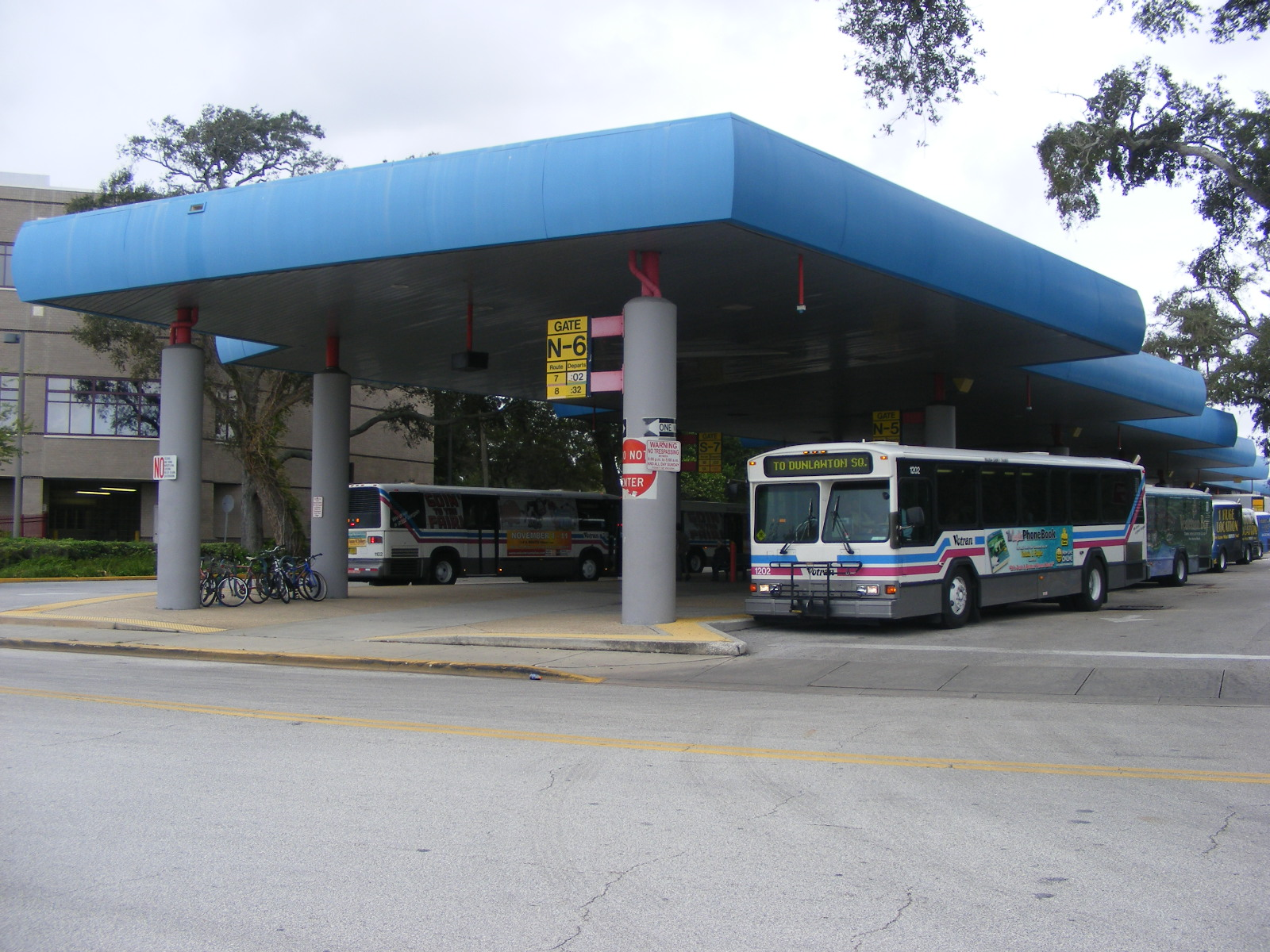 VOTRAN's Transfer Plaza, corner of Palmetto Street and Bethune Blvd., Daytona Beach.